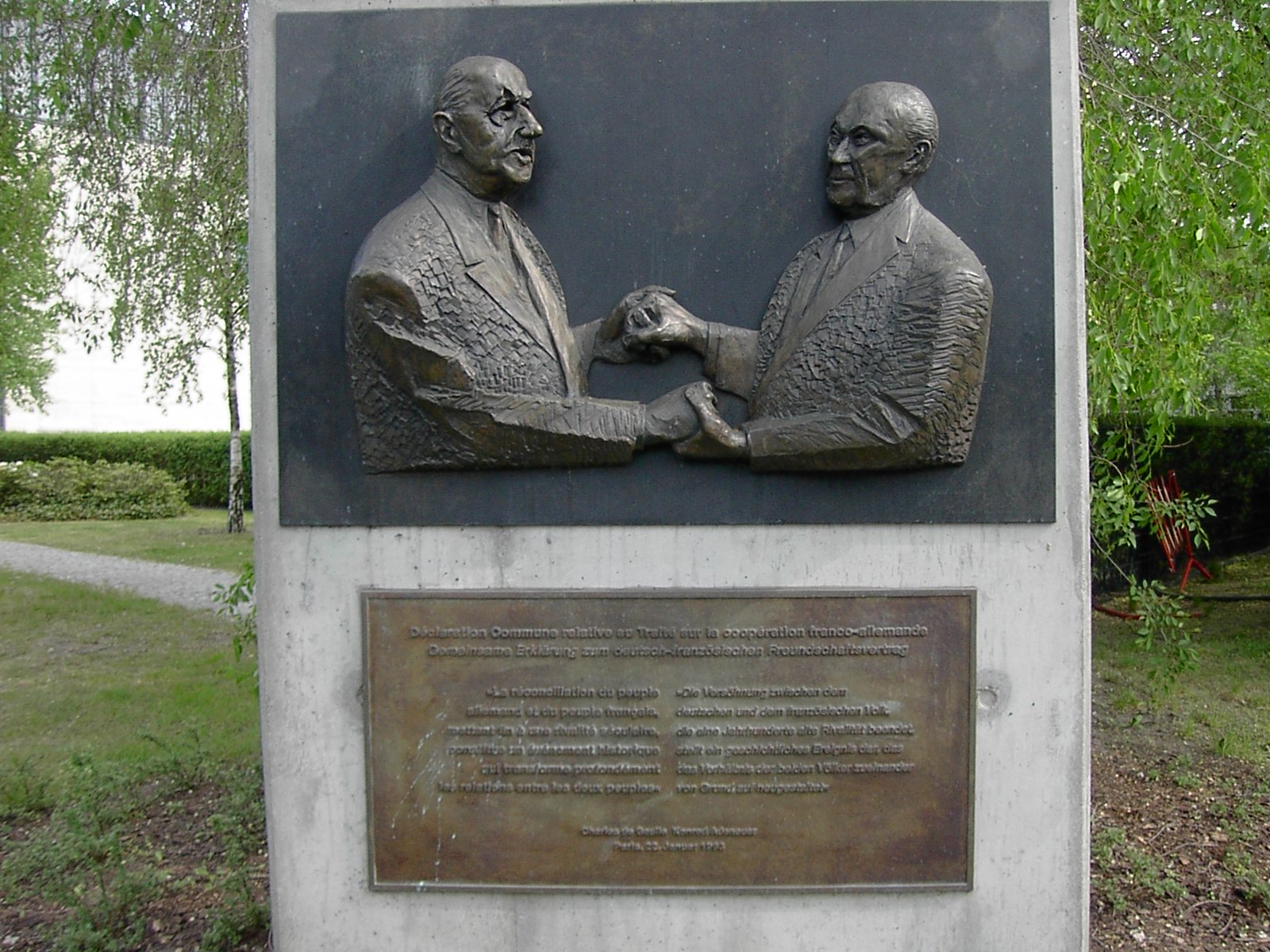 Plaque commemorating the restoration of relations between Germany and France, showing Adenauer and Charles de Gaulle.